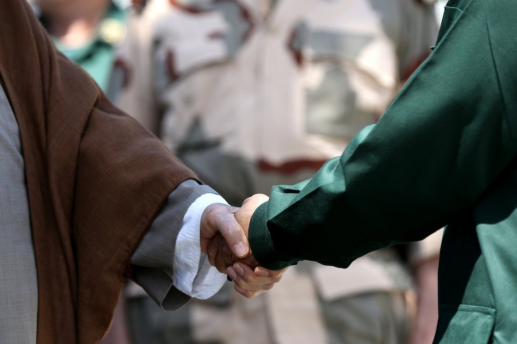 Commander-in-Chief of Iran's Armed Forces Ali Khamenei participated in a graduation ceremony for cadets, at Imam HussainMilitary Academy.